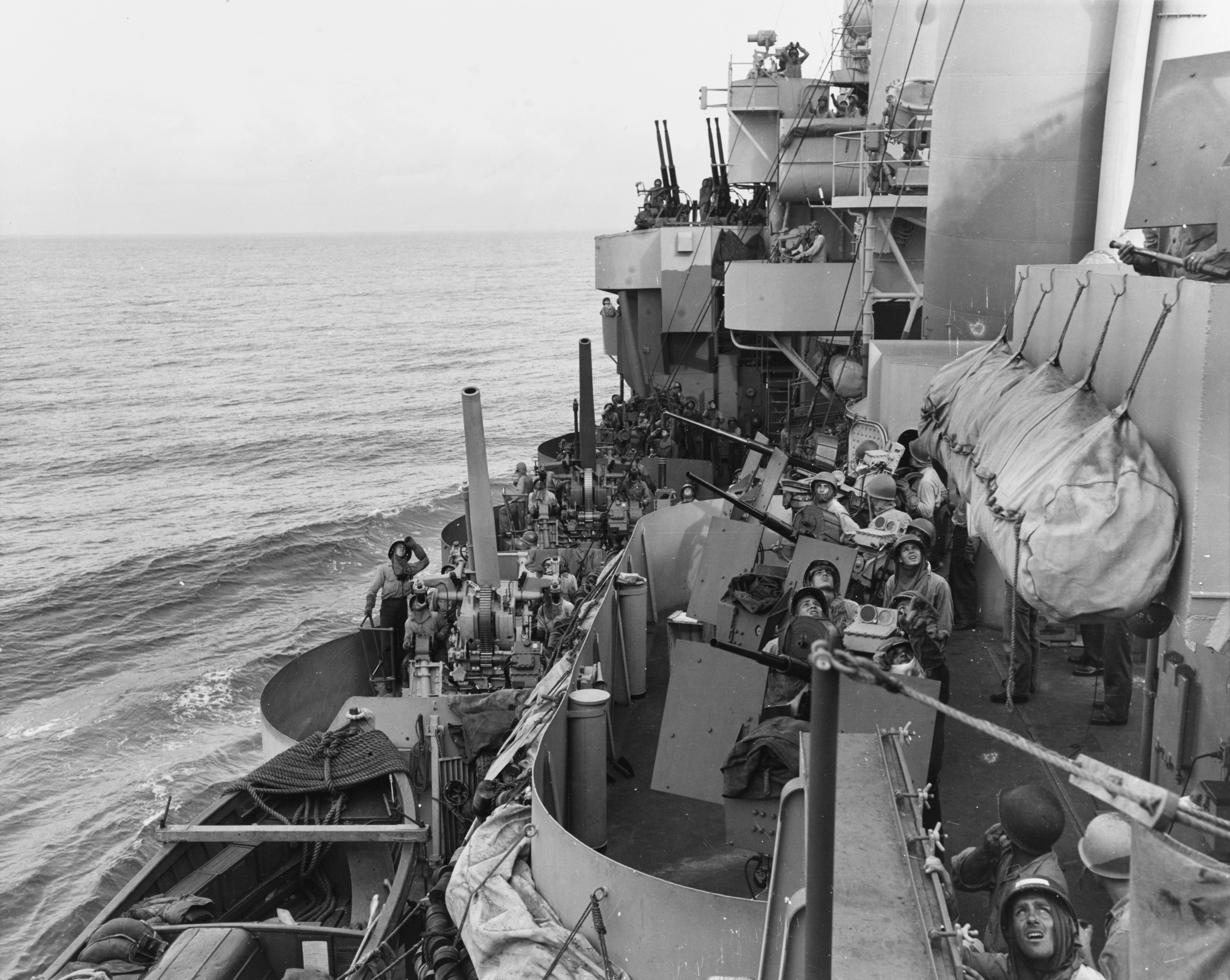 Crewmen at port side midships 5/25, 20 mm and 40 mm anti-aircraft guns aboard the U.S. Navy light cruiser USS Phoenix (CL-46) strain to identify a plane flying overhead, during the Mindoro invasion, 18 December 1944. This was a time of intense Kamikaze attacks, as the expressions on men's faces indicate. Note whaleboat in the lower left, anti-flash clothing, and floater net enclosed in a bag at right. Phoenix is identifiable by her unique "sprayed" Camouflage Measure 32, Design 5D.